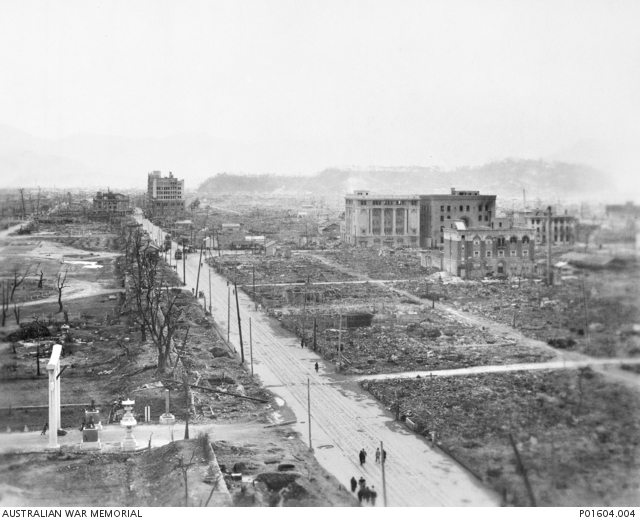 ELEVATED VIEW OF THE RUINS OF THE CITY AFTER THE ATOMIC BOMB WAS DROPPED.